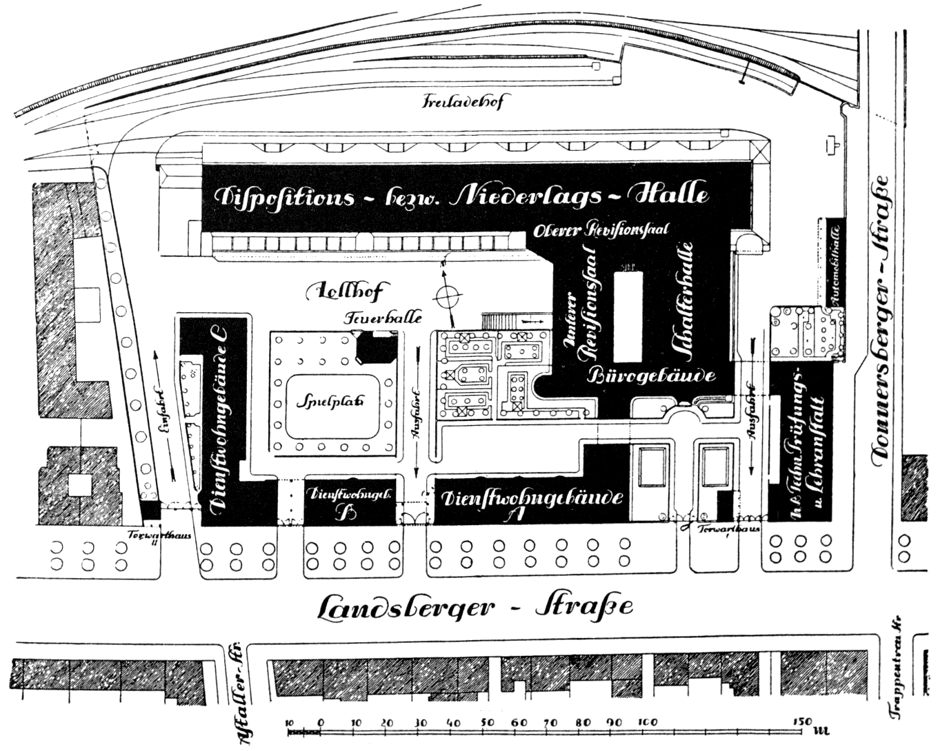 map of the Munich main customs building, as it existed at time of construction 1909-1912